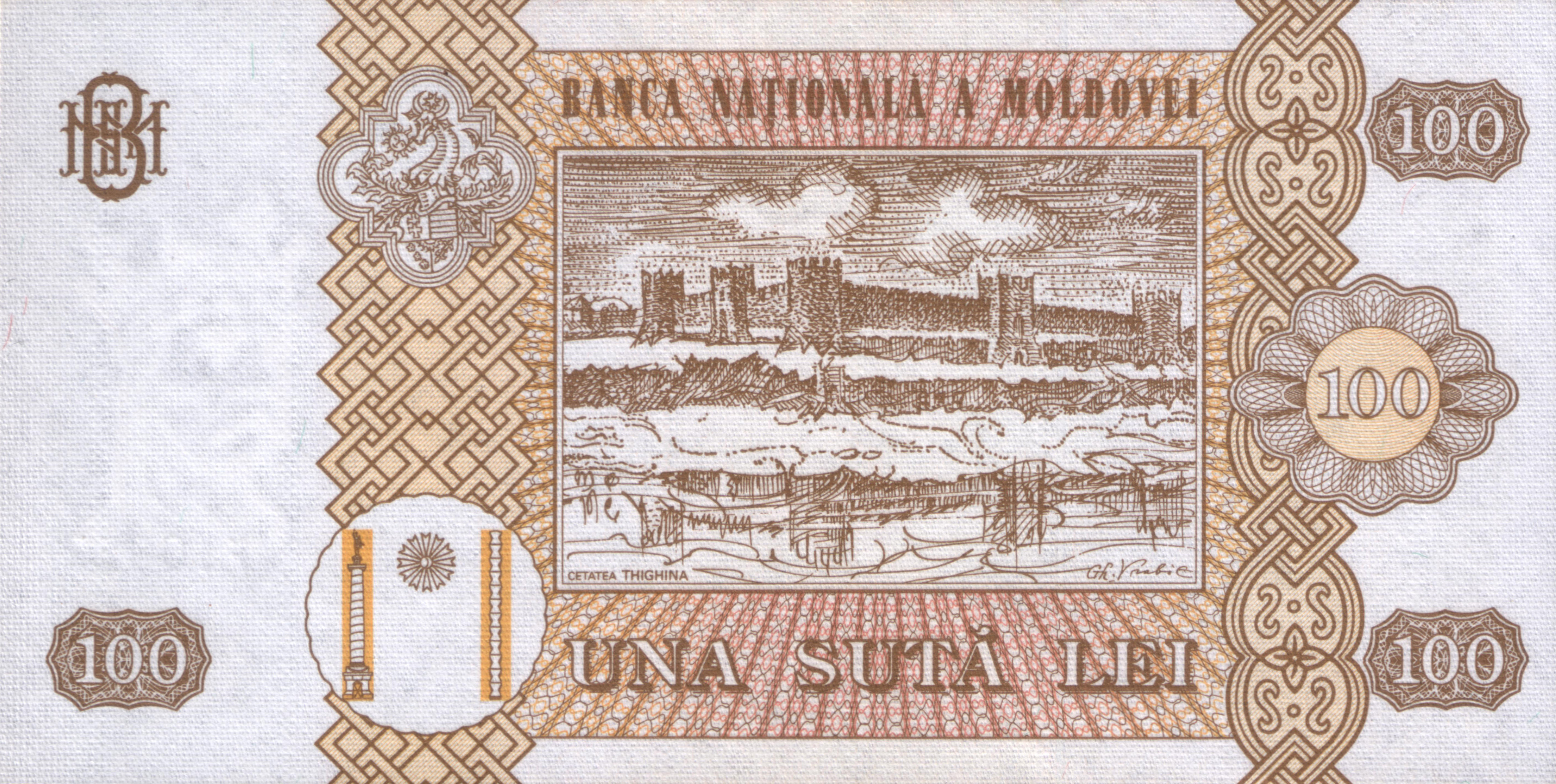 100 lei (1992)